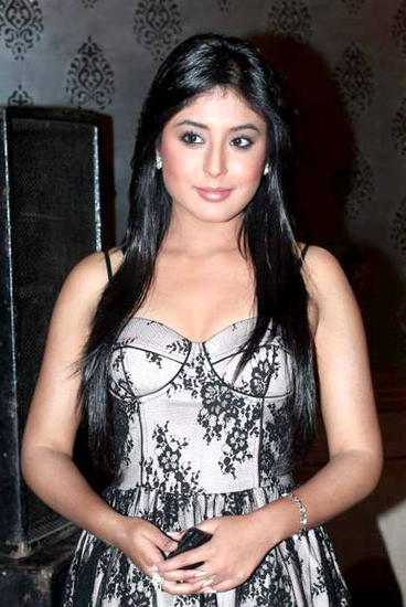 Kritika Kamra at AIAC Golden Achievers Awards